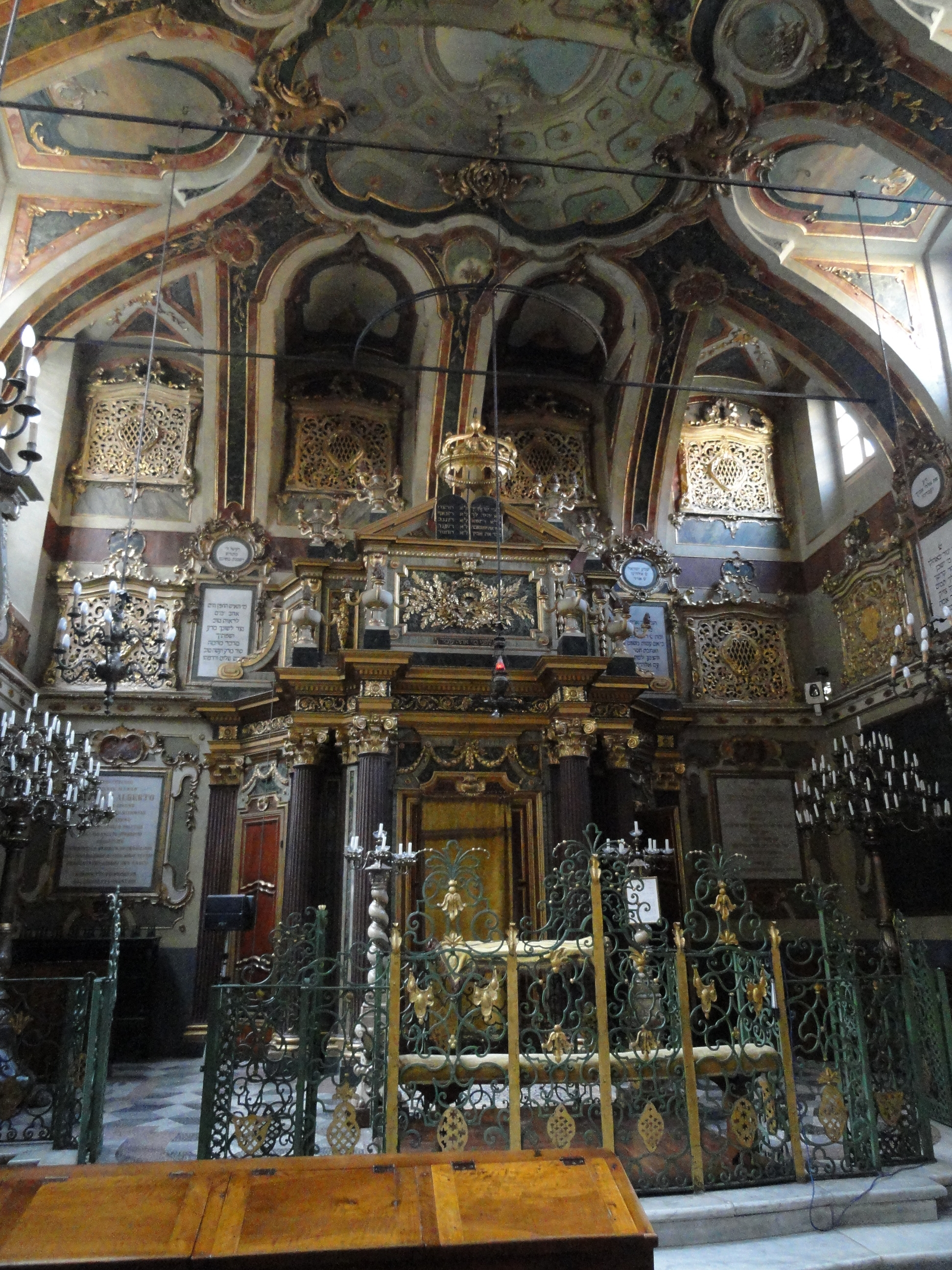 Casale Monferrato (Piemonte - Italy): The synagogue - Ark and Bimah